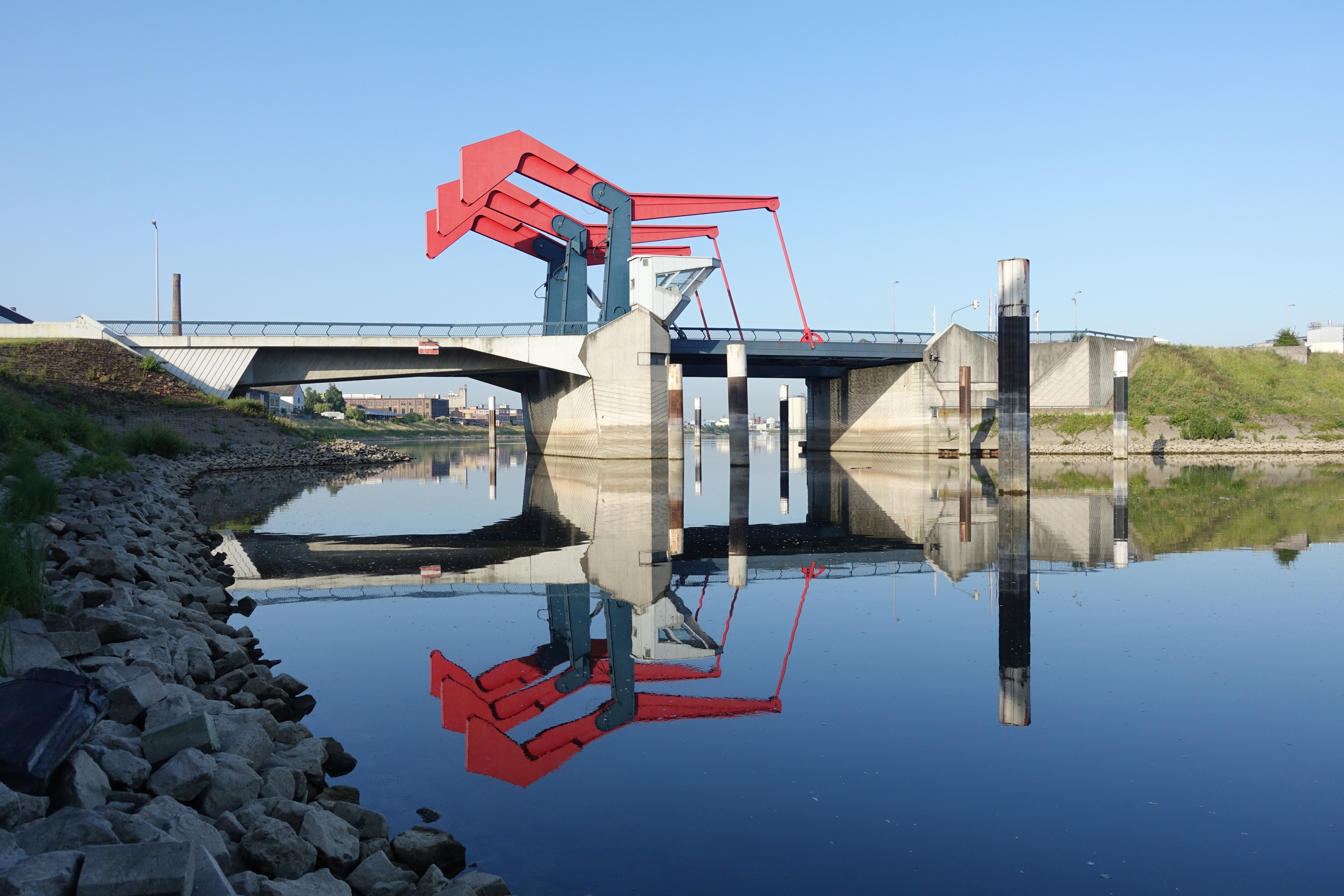 Diffené bridge, Mannheim, Germany, view from north to Industry Harbor